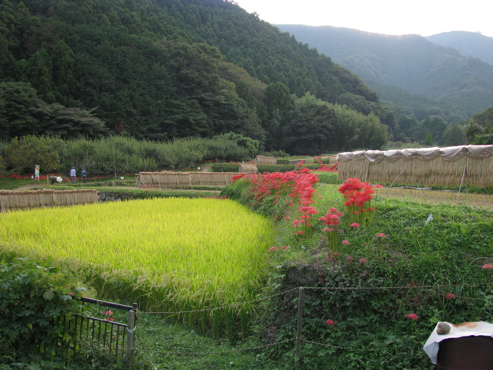 This place is the Hinata rural area in Isehara, Kanagawa, Japan.